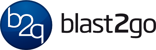 Blast2GO Logo